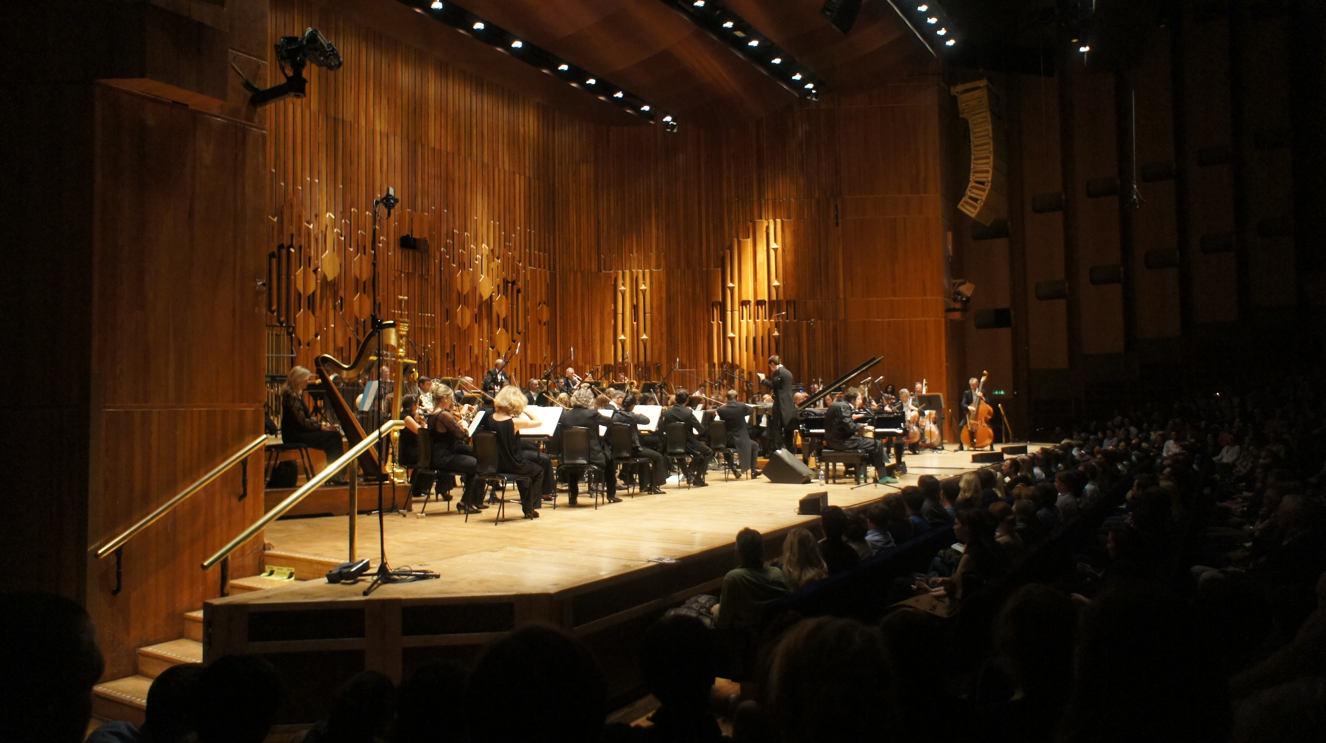 Chilly Gonzales with the BBC Symphony Orchestra at the Barbican.